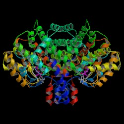 Recombinant Citrate Sinthase with oxalacetate (magenta) and an acetyl-CoA analogue (white) bound. PDB code: 1CSI